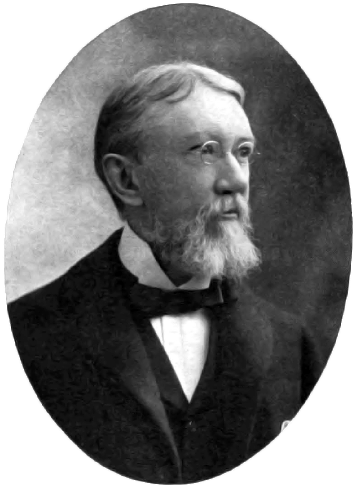 Benjamin Davis Gilbert photograph from The Fern Bulletin Vol. 9, 1901